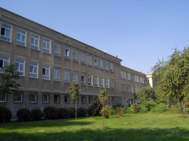 A photo of KEN High School in Stalowa Wola (Poland)